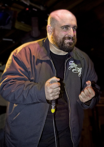 B. Dolan artist performing live in 2012.